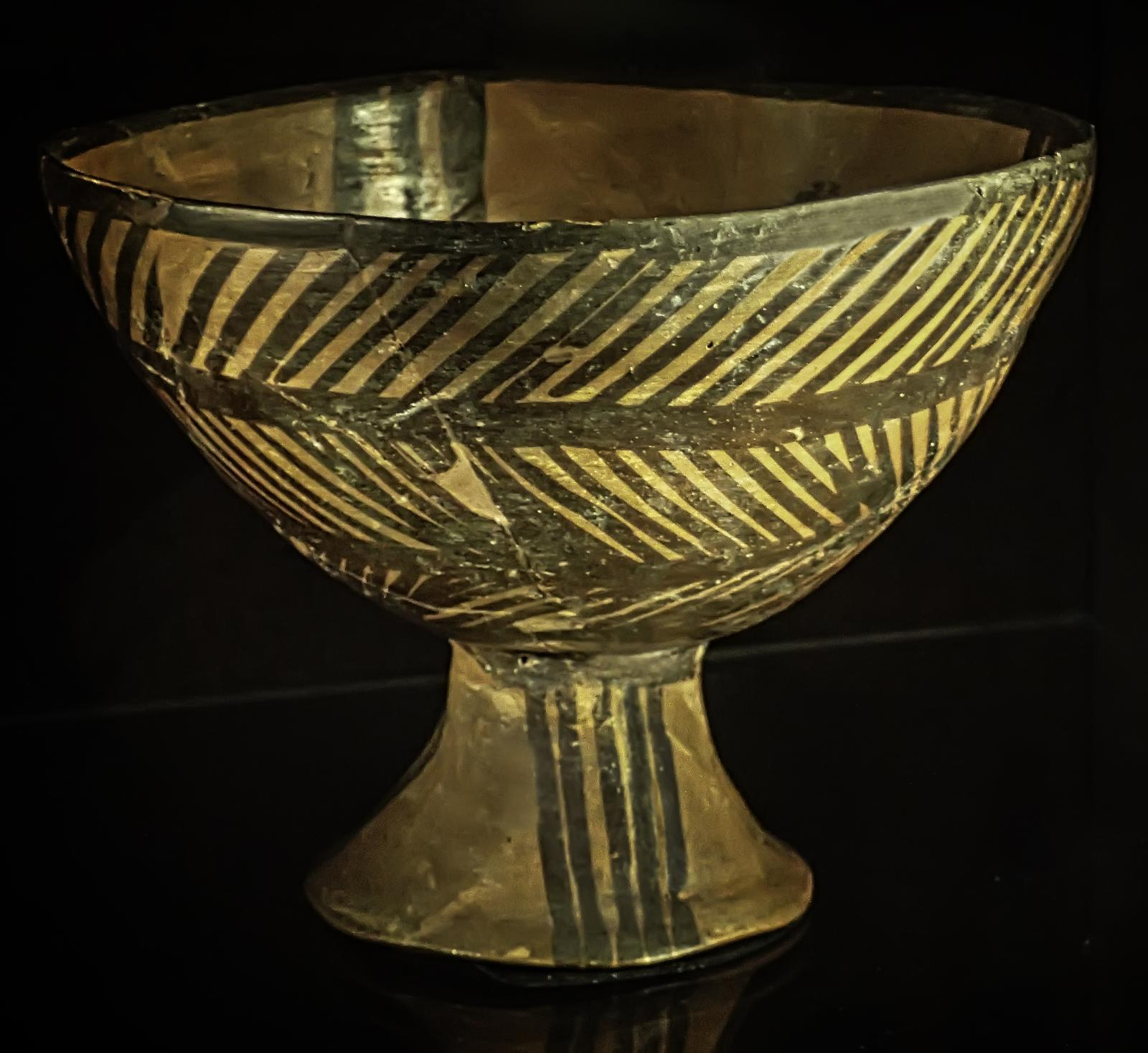 Painted Redware from Tepe Hissar in modern day Iran 4000 BCE Ceramic The "Indiana Jones and the Adventure of Archaeology" exhibit also included real artifacts excavated in regions visited by the ficitional Indiana Jones in the feature film series. These artifacts were recovered from expeditions by researchers from the University of Pennsylvania who provided them to National Geographic for the exhibition. Photographed at the "Indiana Jones and the Adventure of Archaeology" exhibit at the National Geographic Museum in Washington D.C.